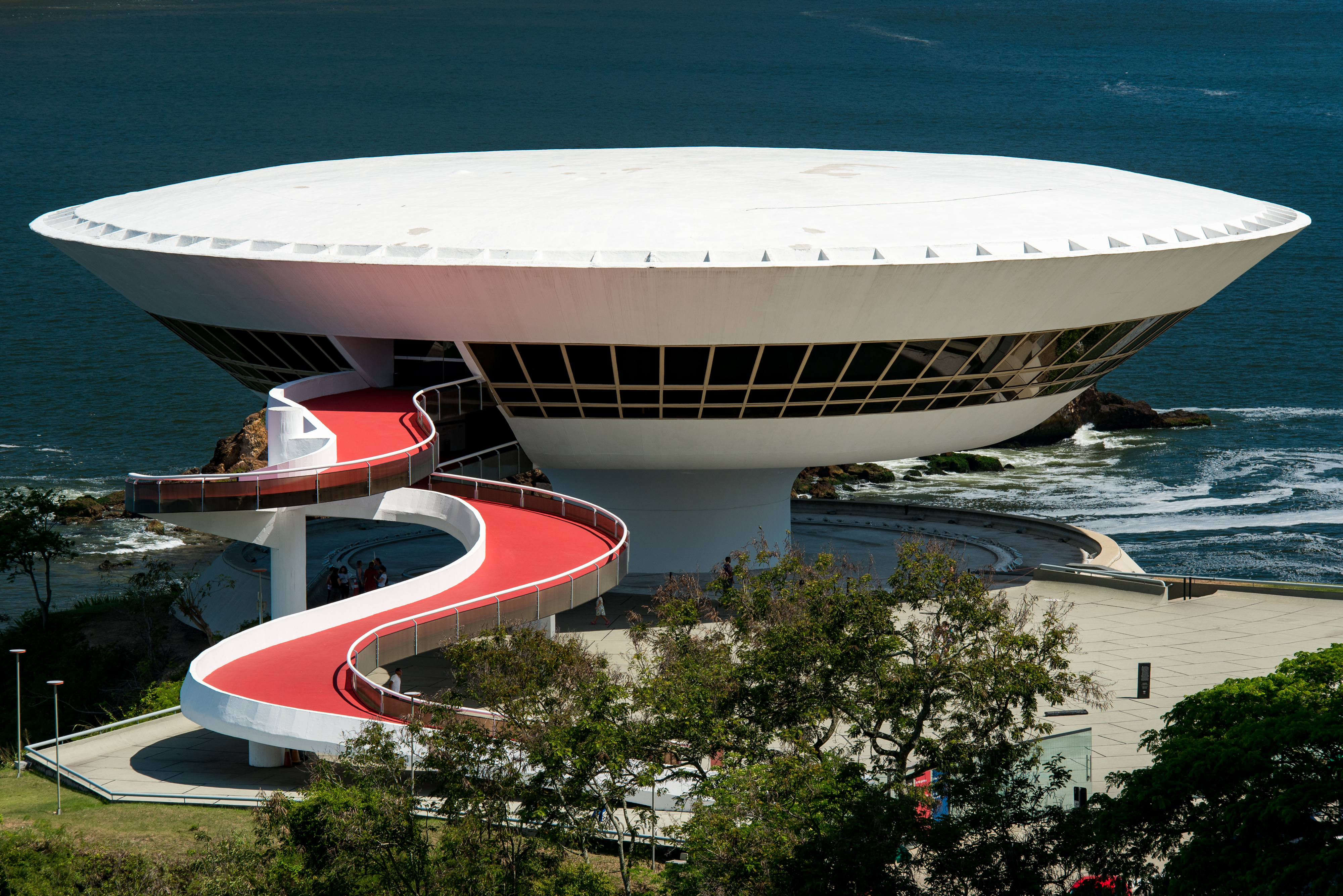 Famous building by Oscar Niemeyer. Cultural property Niterói Contemporary Art Museum, Niterói, Rio de Janeiro, Brazil Q1573239, VIAF ID: 138115194, Library of Congress authority ID: n98910632, P727: iPatrimônio ID: niteroi-museu-de-arte-contemporanea-mac, Itaú Cultural ID: instituicao109820/museu-de-arte-contemporanea-de-niteroi-mac-niteroi